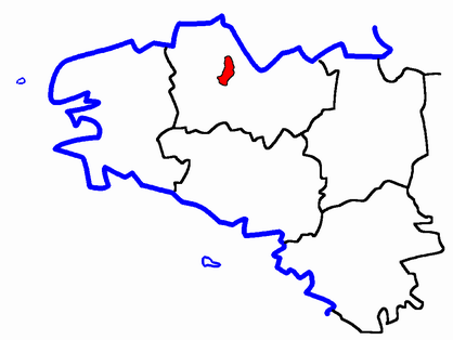 Description: Map for localisazion of cantons of Bretagne region in France Source: made by Hervé Tigier in april 2005 from another large map (published in 1990)